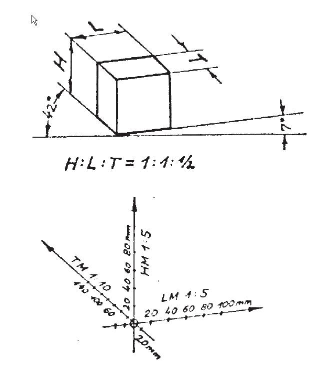 Dimetrische Axonometrie